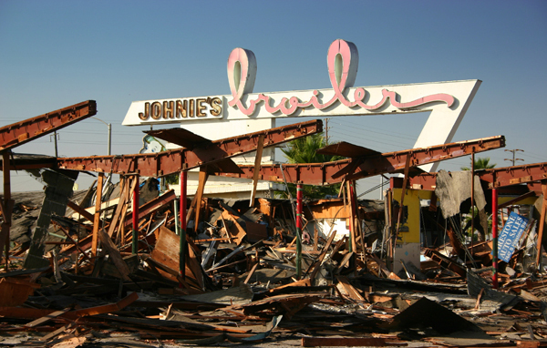 Illegal demolition: The Morning After, Jan. 8, 2007